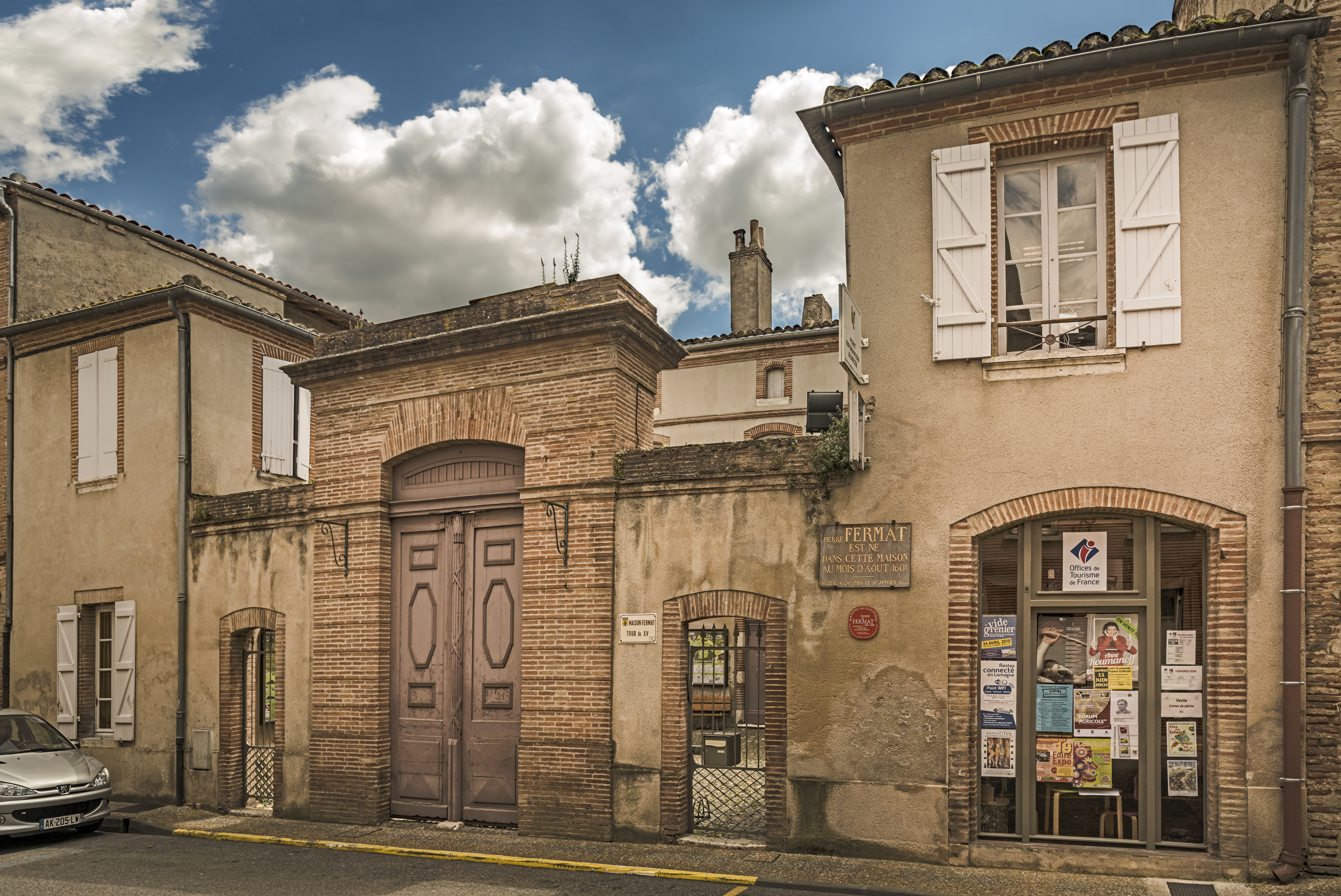 Hôtel de Fermat, 3 Pierre de Fermat street in Beaumont-de-Lomagne. Birthplace of Pierre Fermat.